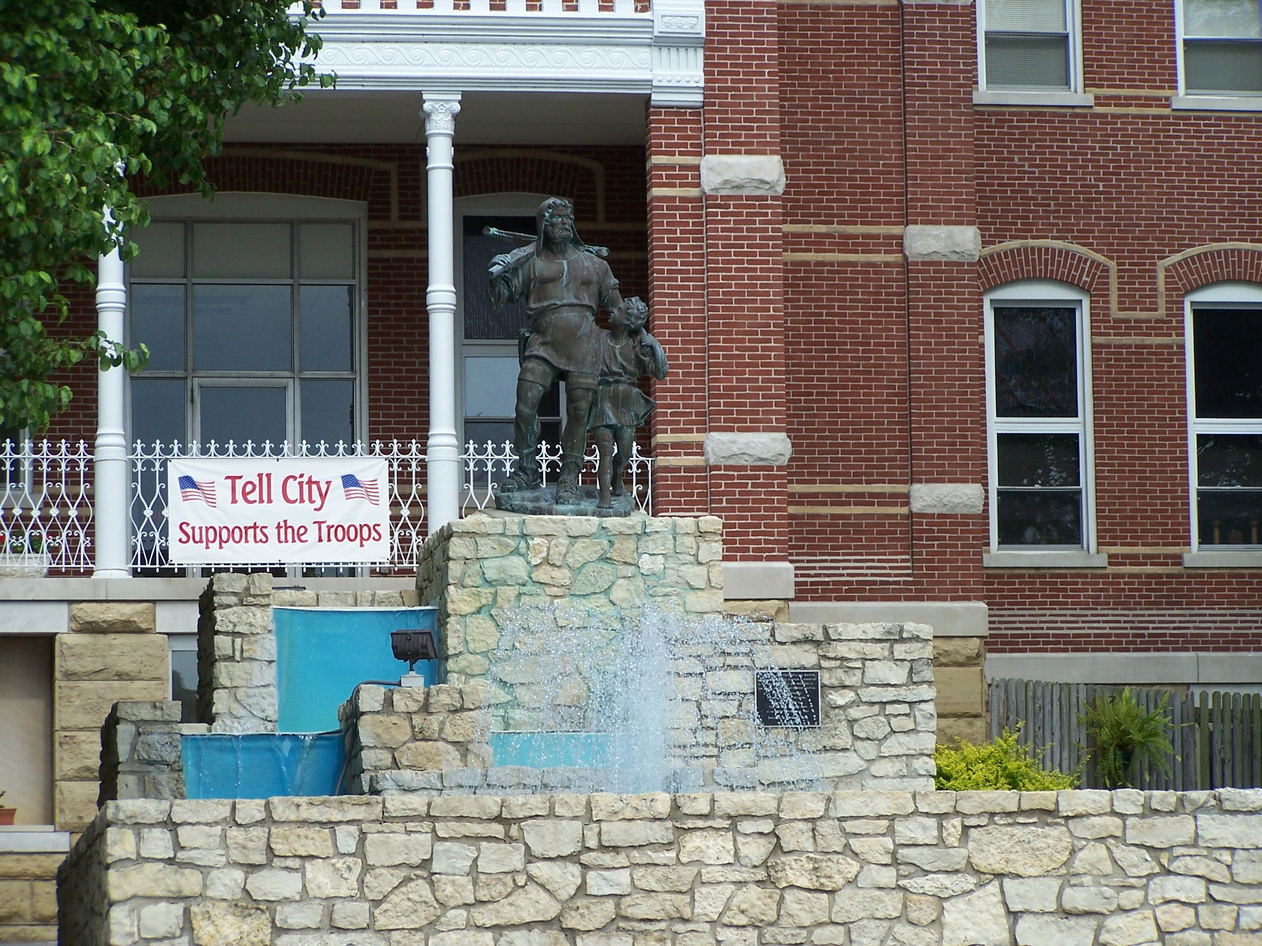 The town hall of Tell City, IN.